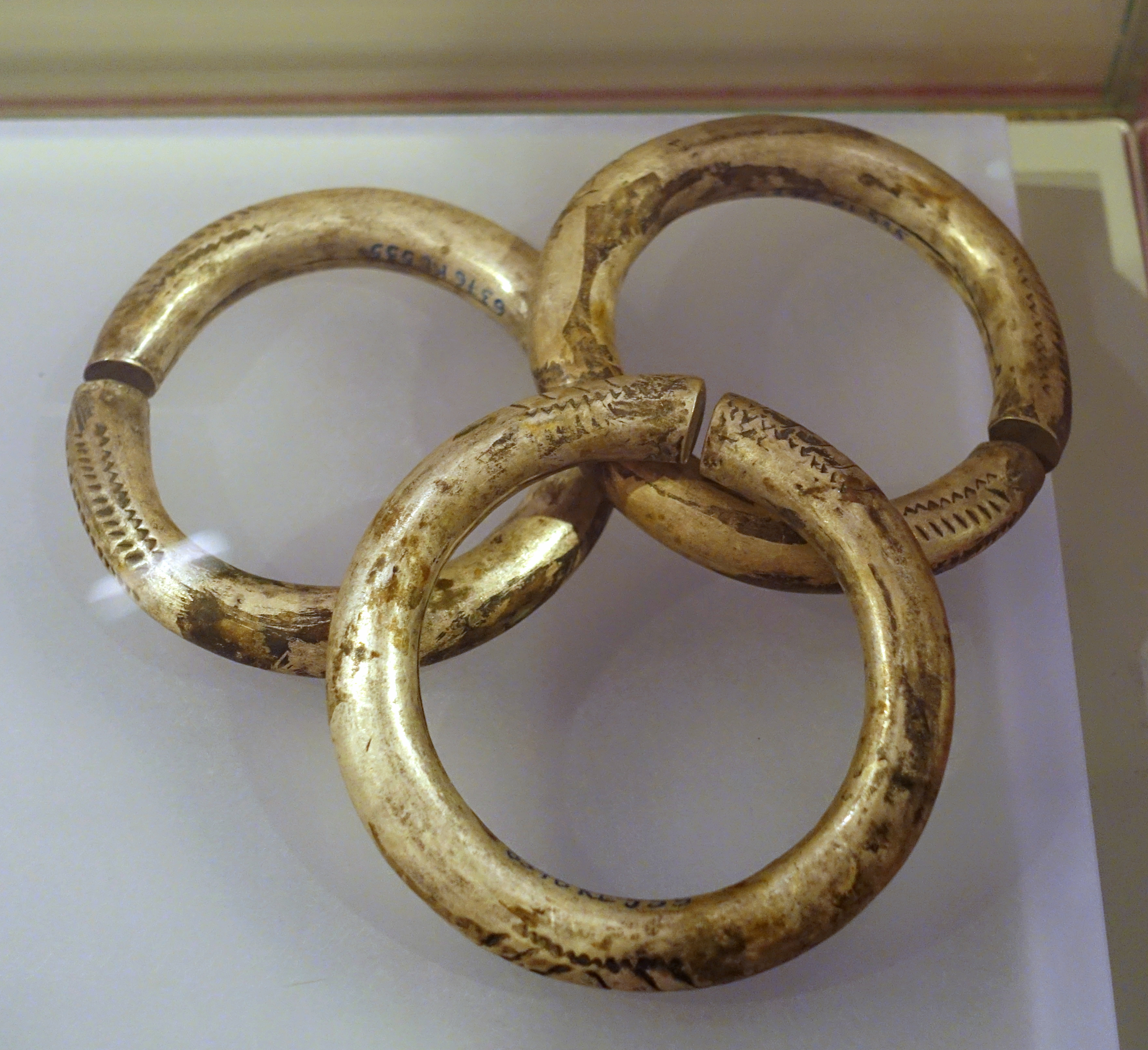 Exhibit in the Vietnamese Women's Museum, Hanoi, Vietnam.